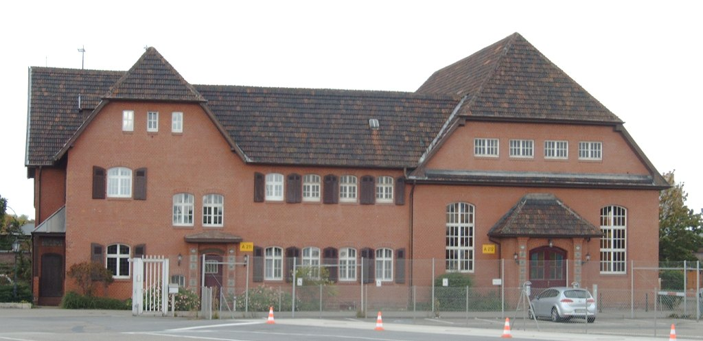 Friatec company: old house